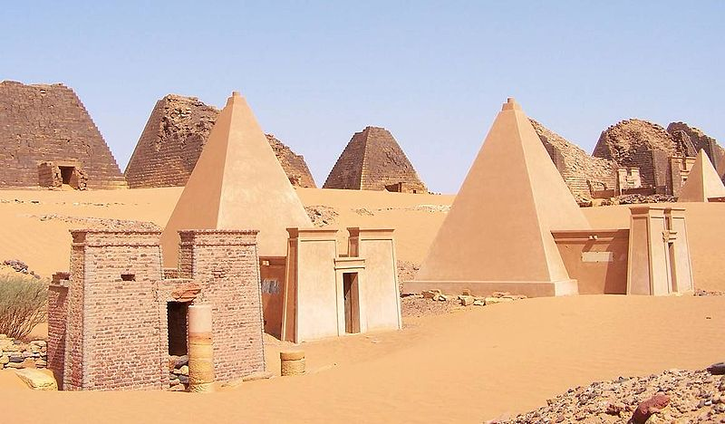 Wide View of Nubian Pyramids